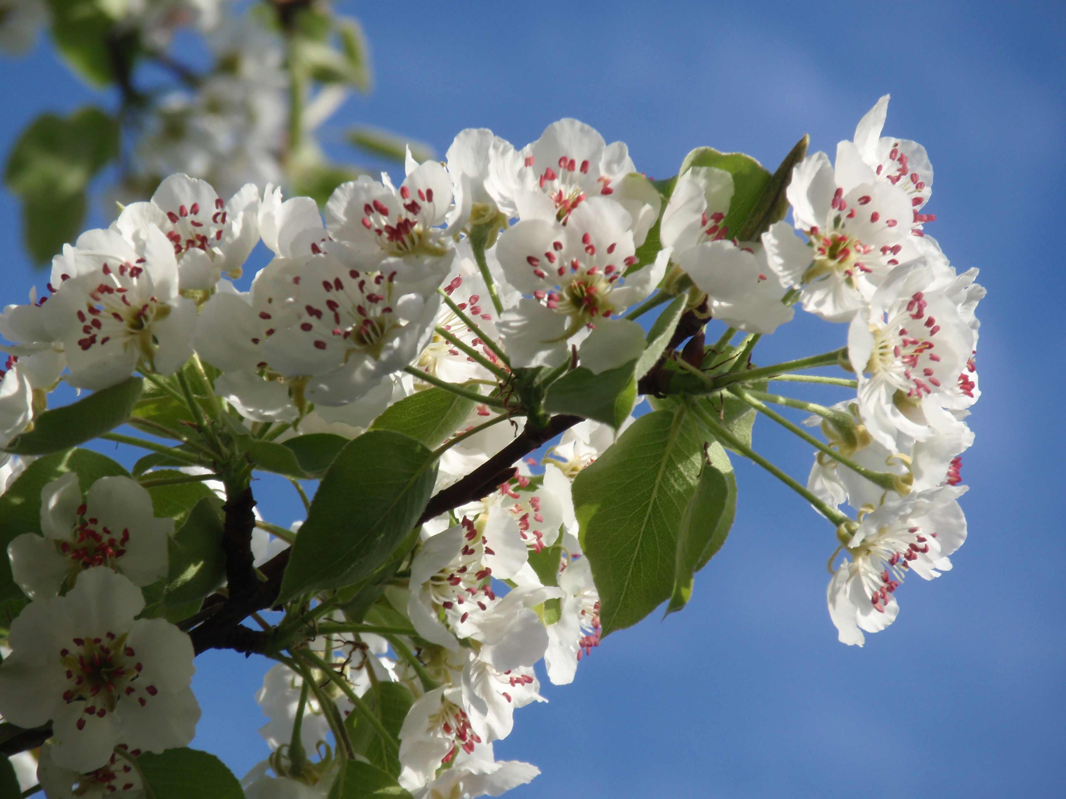 Pear Flowers